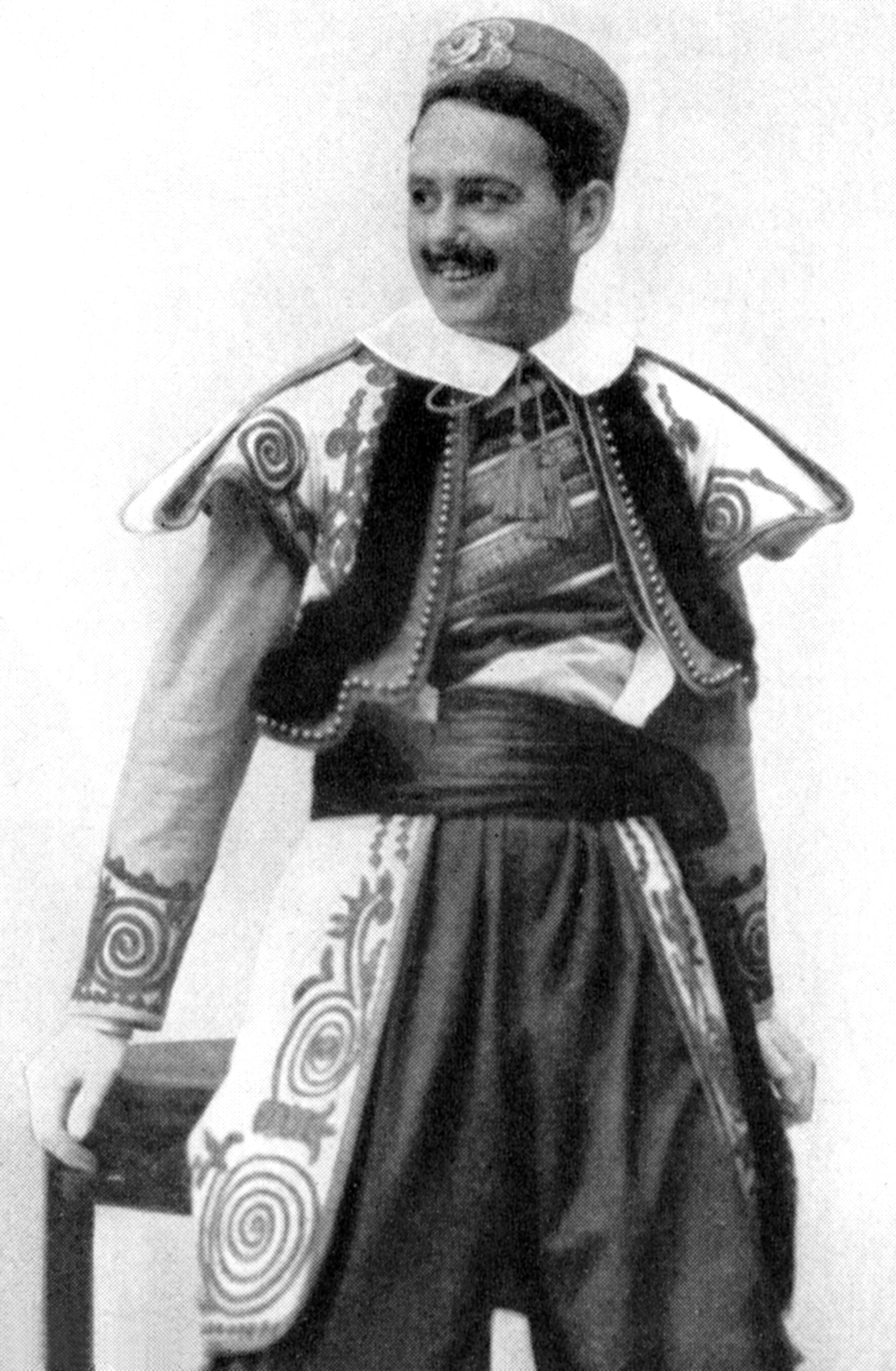 Promotional photograph of Donald Brian in the original Broadway production of The Merry Widow